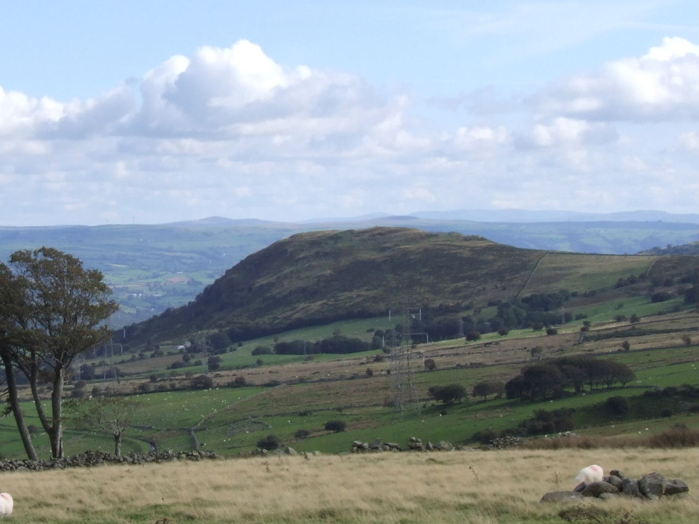 Pen-y-gaer hillfort, near Llanbedr-y-cennin, Conwy County, Wales.